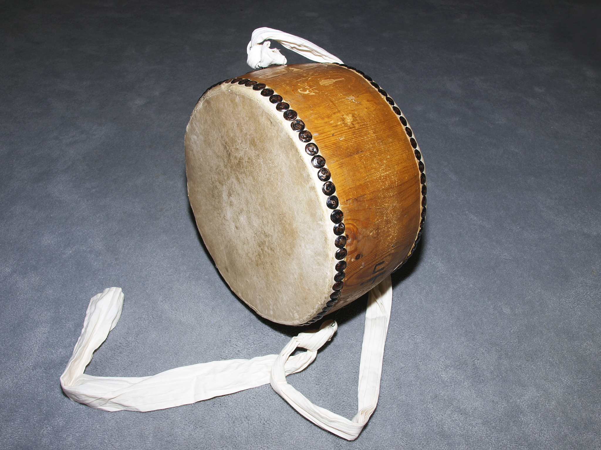 Sori-Buk, Korean traditional drum for Pansori performance